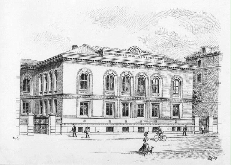 HQ of Østifternes Kreditforening, Nørre Voldgade 5, built 1875-76 by Valdemar Ingemann. 1916 sold to Forsikringsselskabet National. Now N. Zahles Skole. Completely rebuilt 2011-12. The Royal Library.